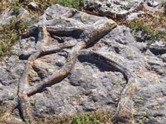 Cruziana (fossil trackways of trilobites) near top of the Peña de Francia mountain in Salamanca, Spain